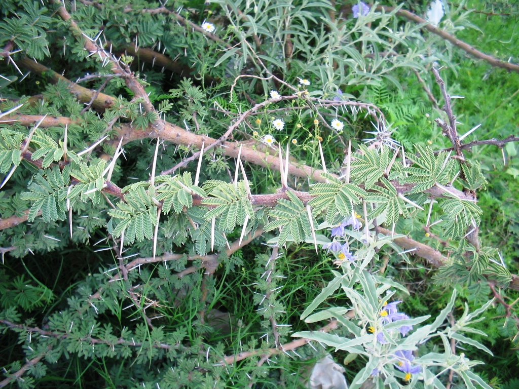 Acacia schaffneri thorns; the largest I've ever seen.